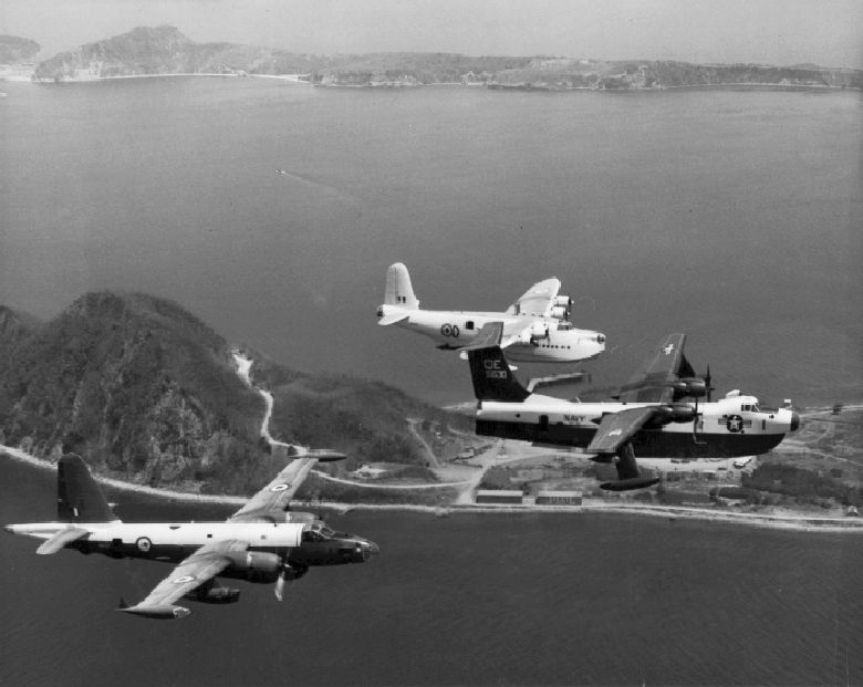 Three patrol aircraft over Manila bay during a SEATO exercise in 1963. Depicted are: A Lockheed SP-2H Neptune of No. 10 Squadron, Royal Australian Air Force, a U.S. Navy Martin P-5B Marlin of patrol squadron VP-40, and a Short Sunderland MR.5 of No. 5 Squadron, Royal New Zealand Air Force. Corregidor island is visible in the background.